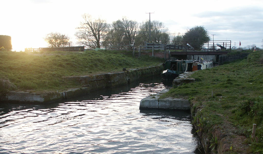 An image showing the lower chamber of the Snakeholme "staircase" (Michael Askin). Situated south of Wansford, East Riding of Yorkshire. England.